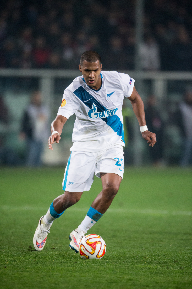 20.03.15. Италия, Турин, «Стадио Олимпико». Лига Европы УЕФА, 1/8 финала, «Торино» — «Зенит».